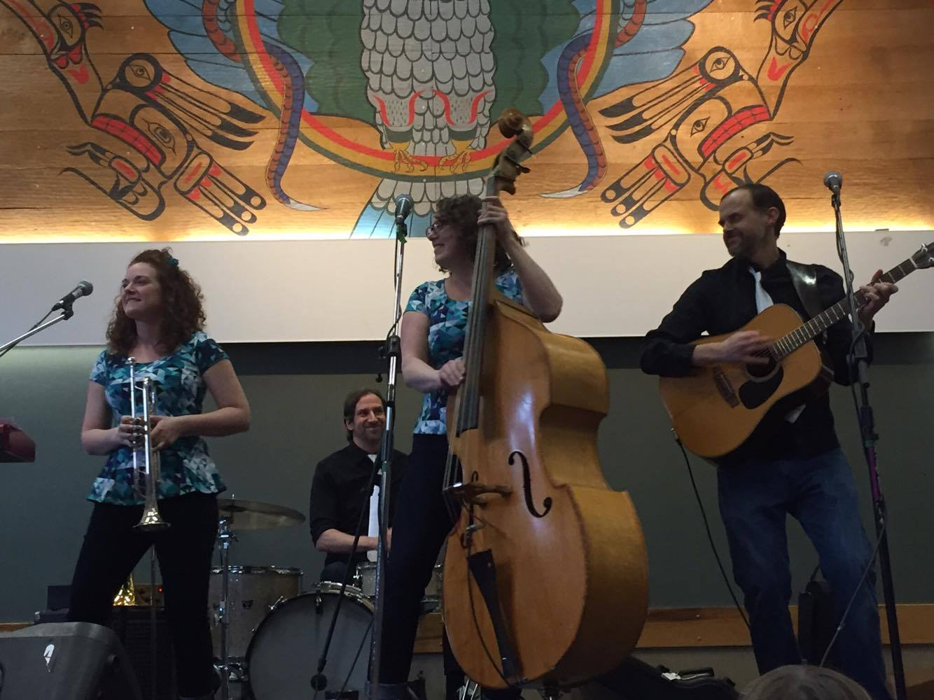 The Kerplunks at the Tofino Whale Fest, 2017